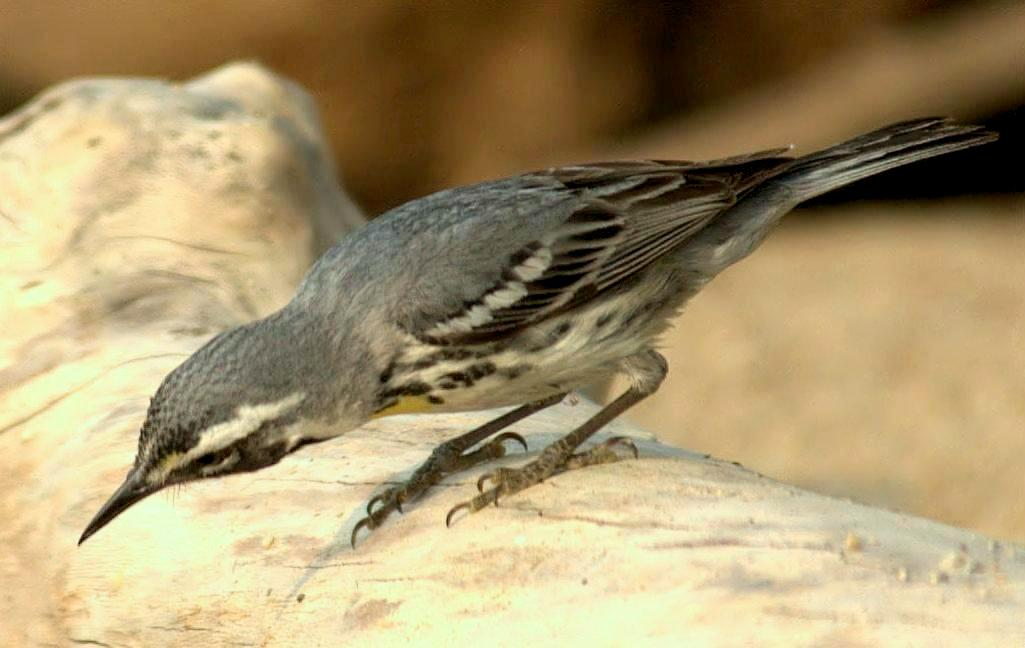 Joby Joseph, Taken with Nikon D50, 80-400VR at Mason neck park, MD, USA